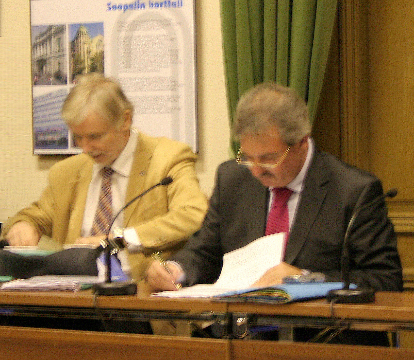 The foreign ministers of Finland and Luxembourg, Mr. Erkki Tuomioja and Jean Asselborn, 9th November, 2006 in Helsinki.